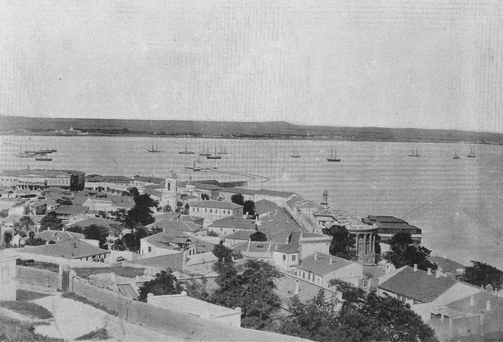 Kerch, 1902